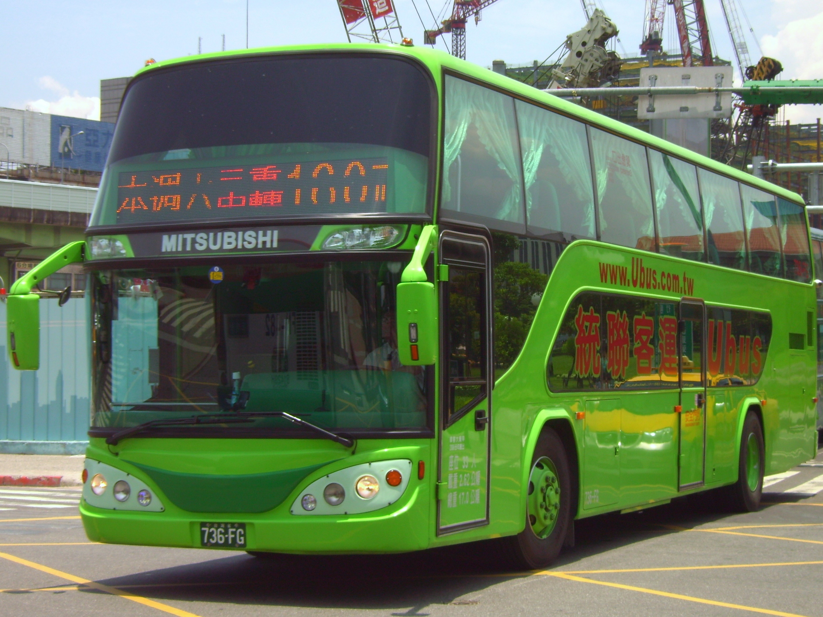 United Bus Co., Ltd. purchased Fuso Bus at 2006.